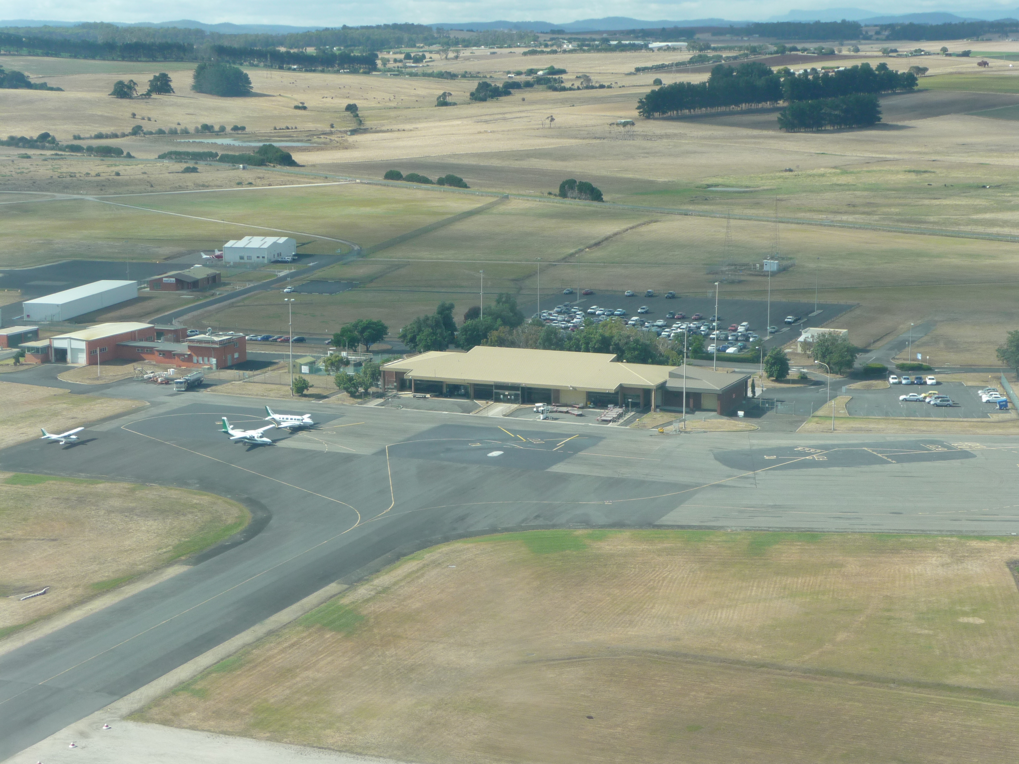 The passenger terminal, aircraft parking apron and some of the ancillary buildings at Devonport Airport in Tasmania, seen from the air looking roughly South-southeast. Digital image taken by YSSYguy on 4 March 2008 and uploaded for use in the Devonport Airport article. YSSYguy (talk) 08:45, 20 February 2014 (UTC)